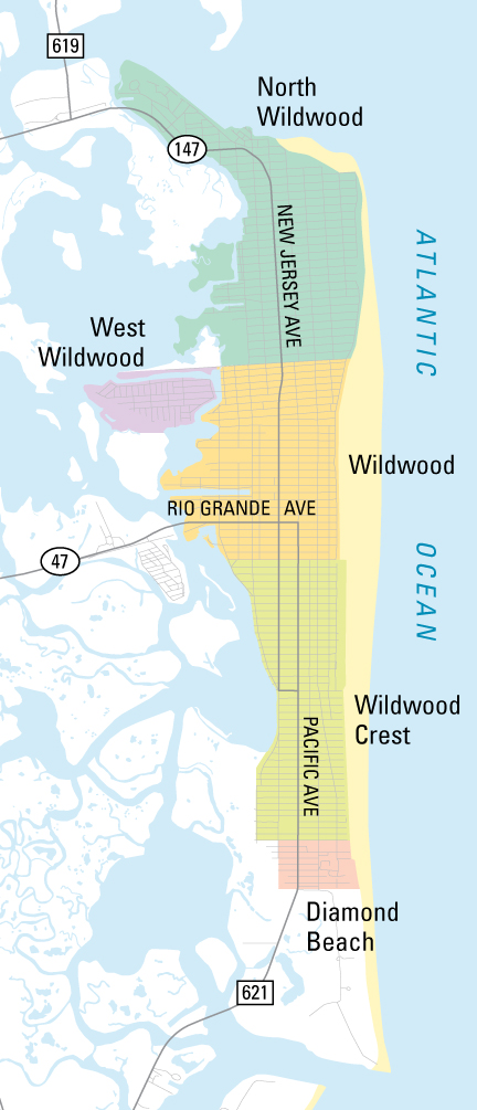 New Jersey State Plane projection TIGER 2015 line data